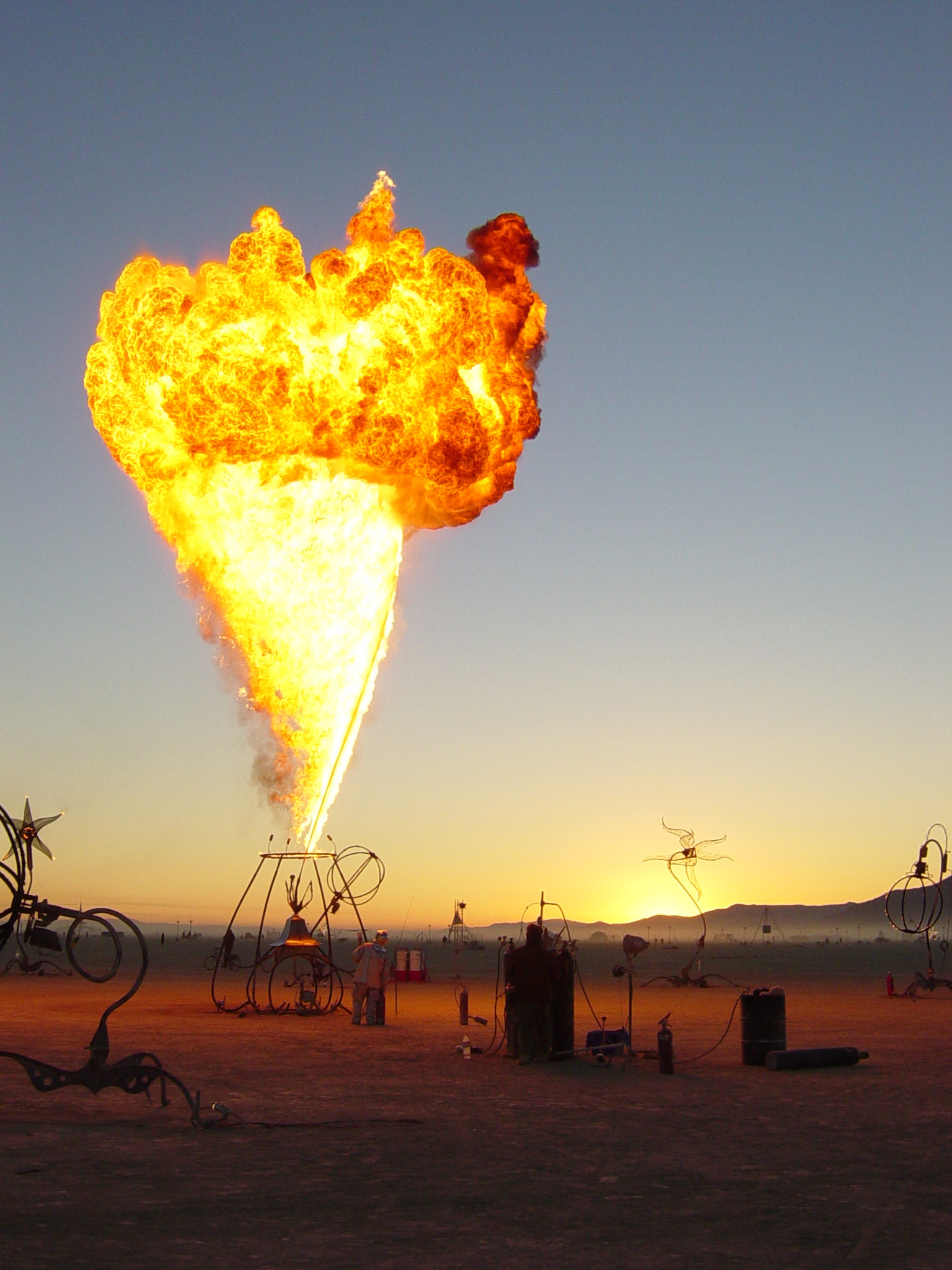 Flaming Lotus Girls, Seven Sisters morning after the Burn show at Burning Man 2004. The morning I met the Flaming Lotus Girls and 6 months later joined them to make crazy art in the desert. I have been loving it even since :)